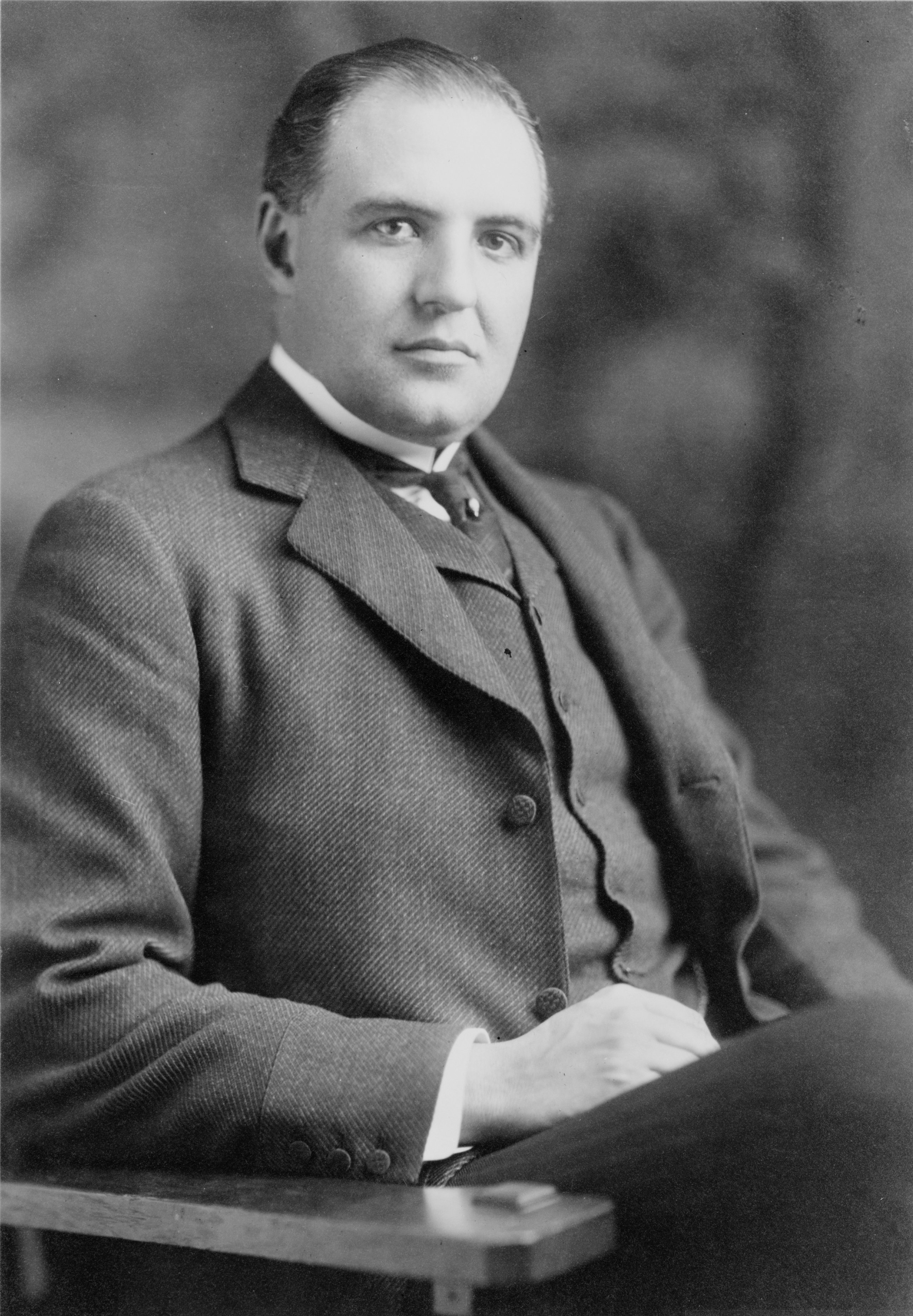 American diplomat and historian Lewis Einstein. Einstein wrote an account of World War I while he was in Constantinople. He also provided important testimony to the Armenian Genocide during his stay there.